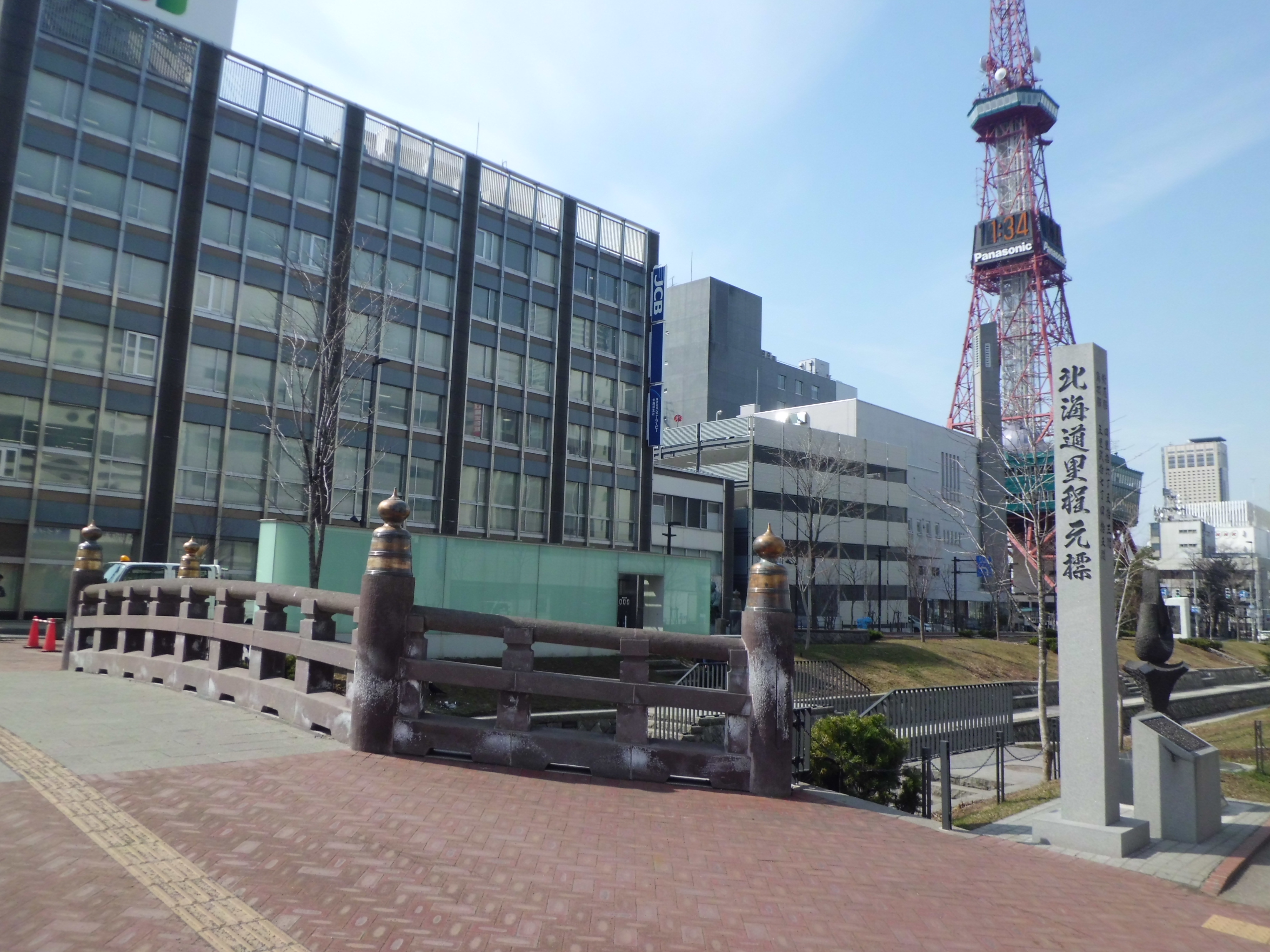 Hokkaido Zero Milestone